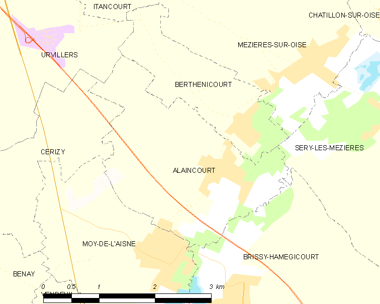 Map of French commune: Alaincourt Map commune FR insee code 02009.png